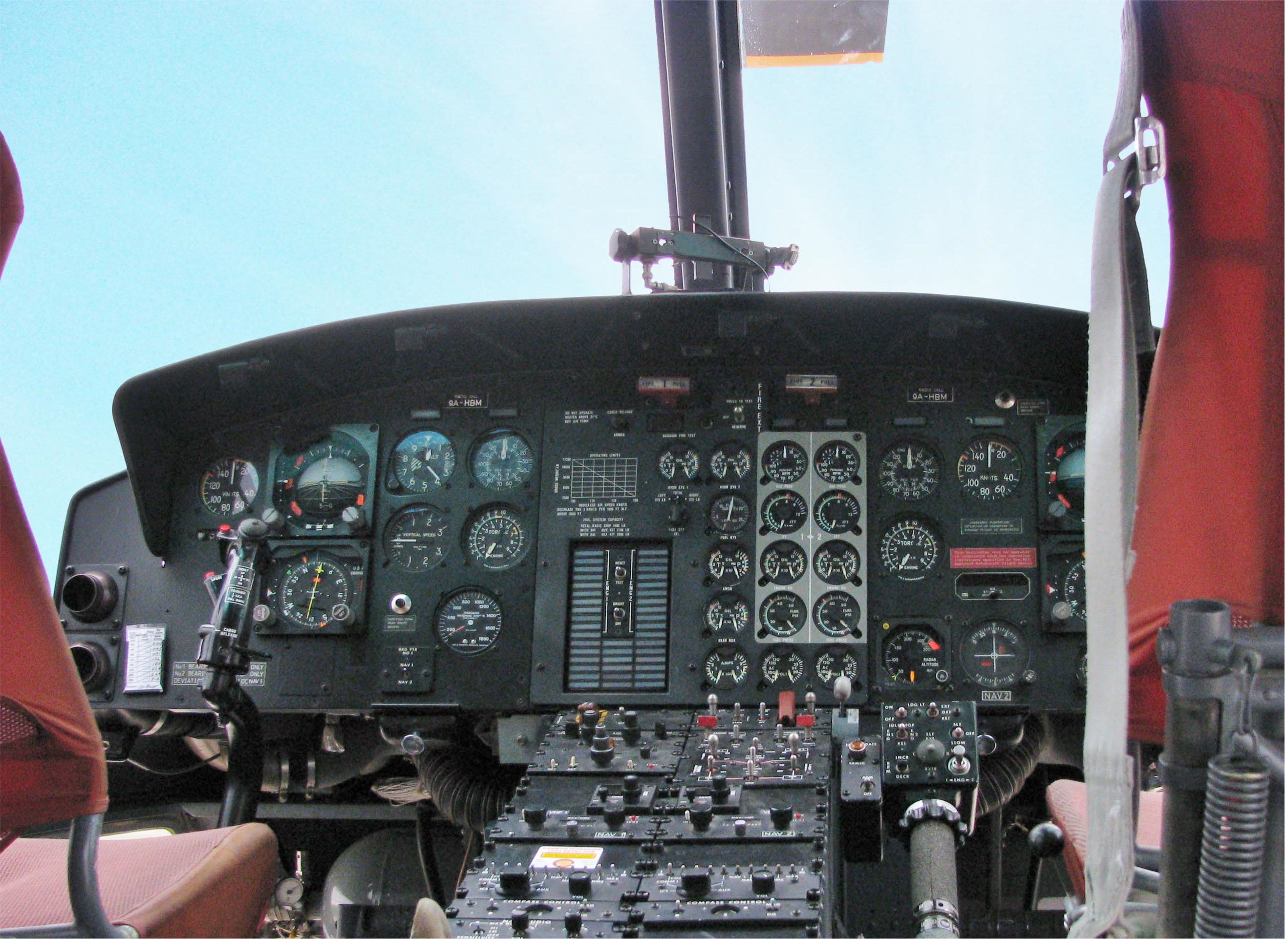 Cockpit of croatian police Augusta Bell 212